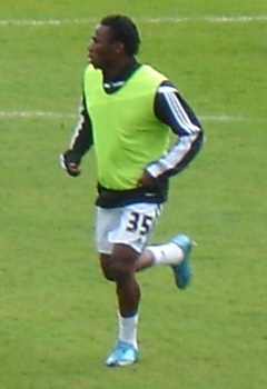 Onismor Bhasera warming up.